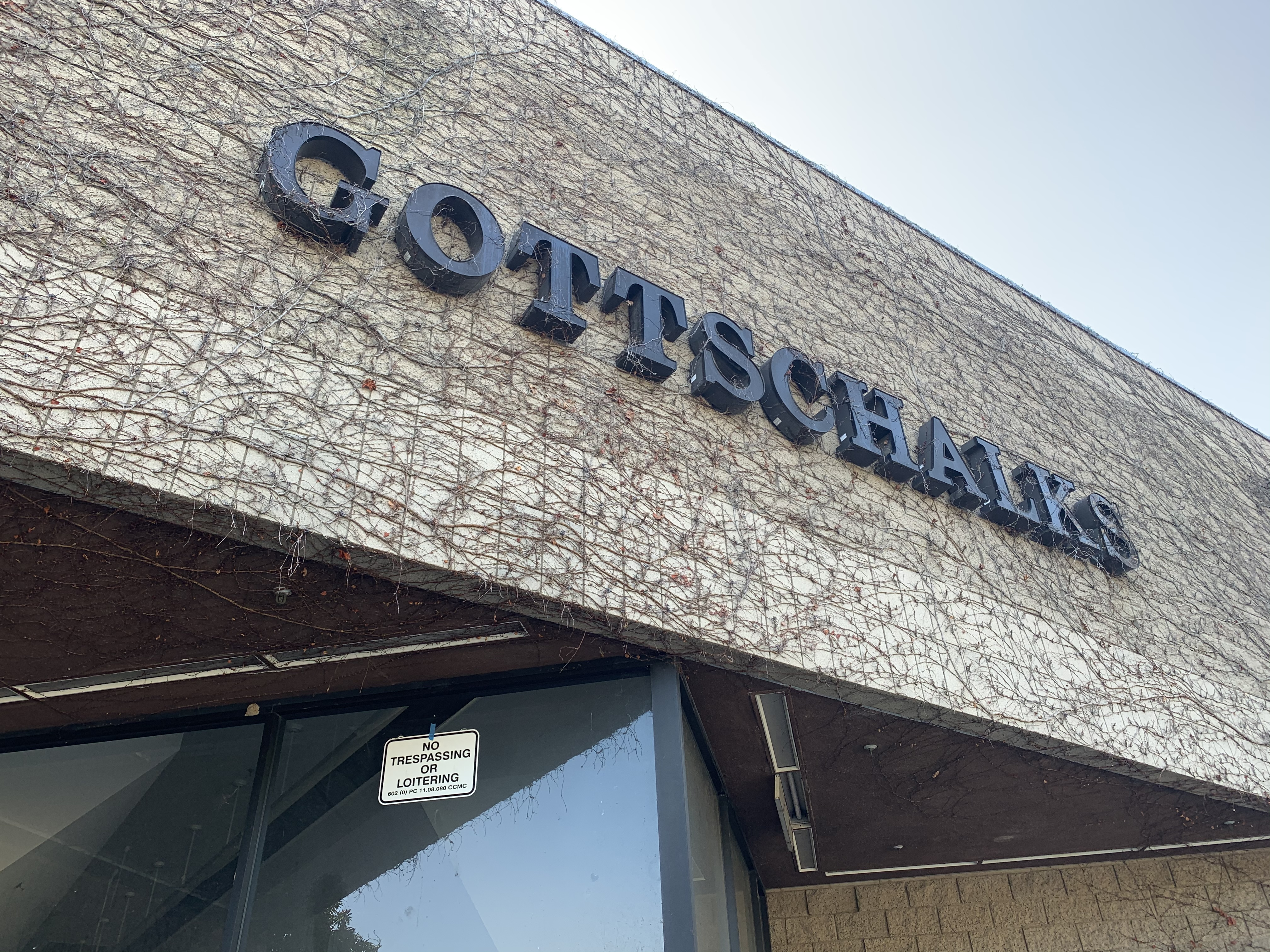 An image of the Redlands Mall, showing the northern side of the former Gottschalks department store in Redlands, CA. The store in turn was formerly a Harris Department Store.